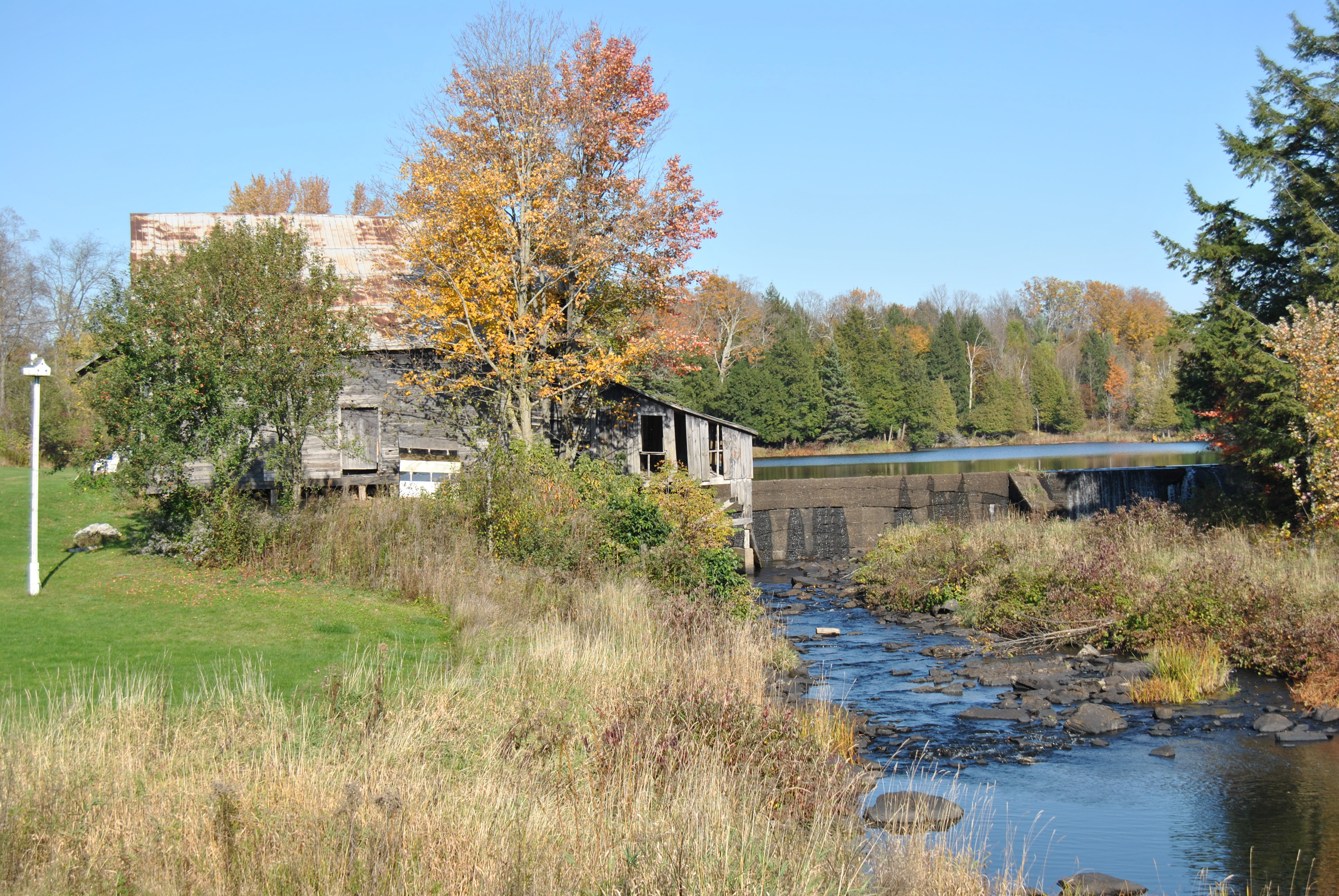 dam and mill building on the Black River in Queensborough, Ontario, Canada